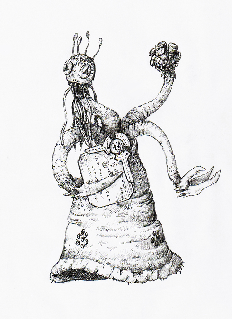 Great race Yit (fan-made picture)